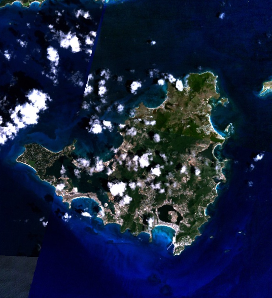 Saint Martin - NASA NLT Landsat 7 (Visible Color) Satellite Image